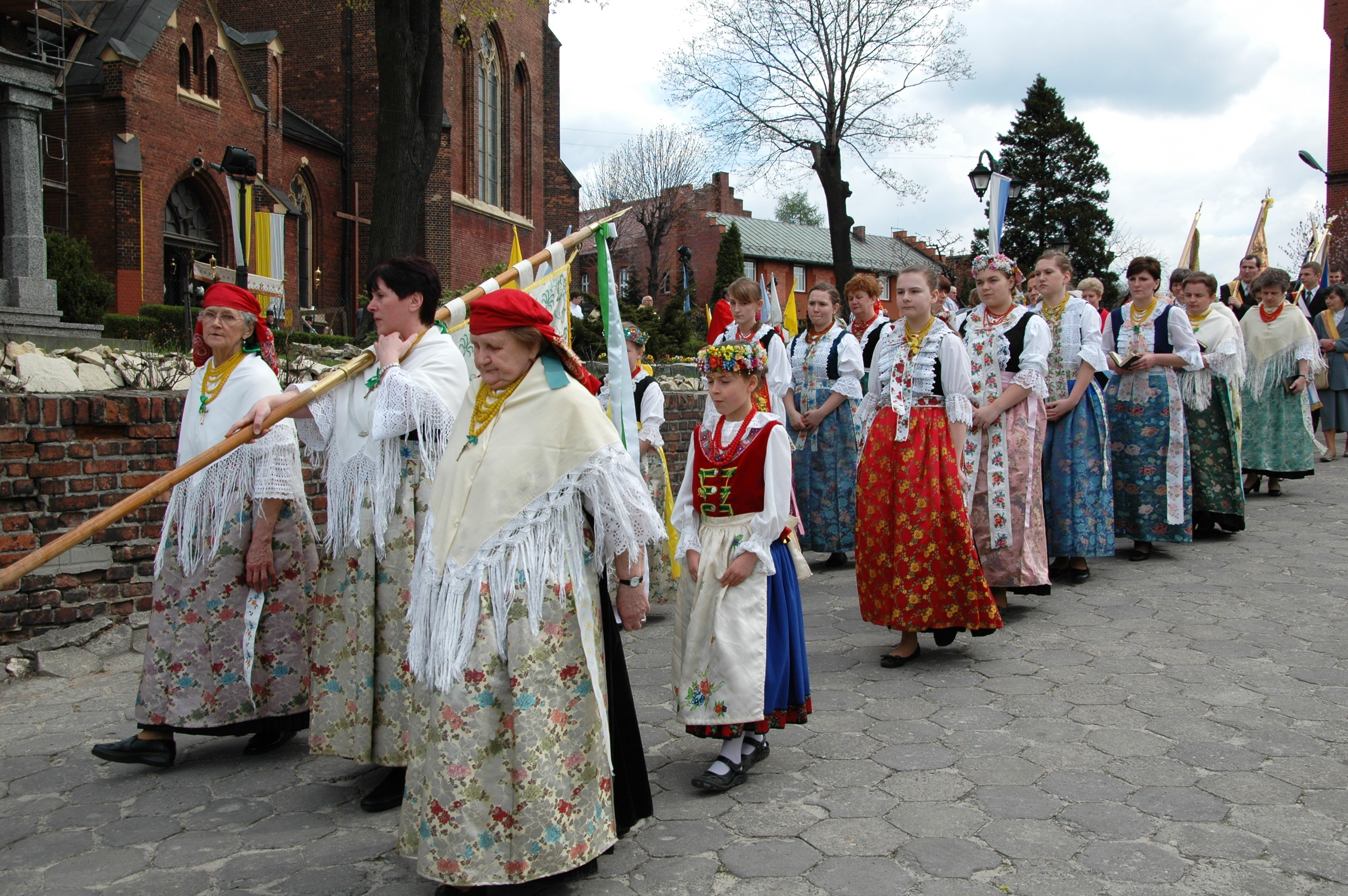 The fair in Radzionków - a festiwal in honour of the Church’s patron.